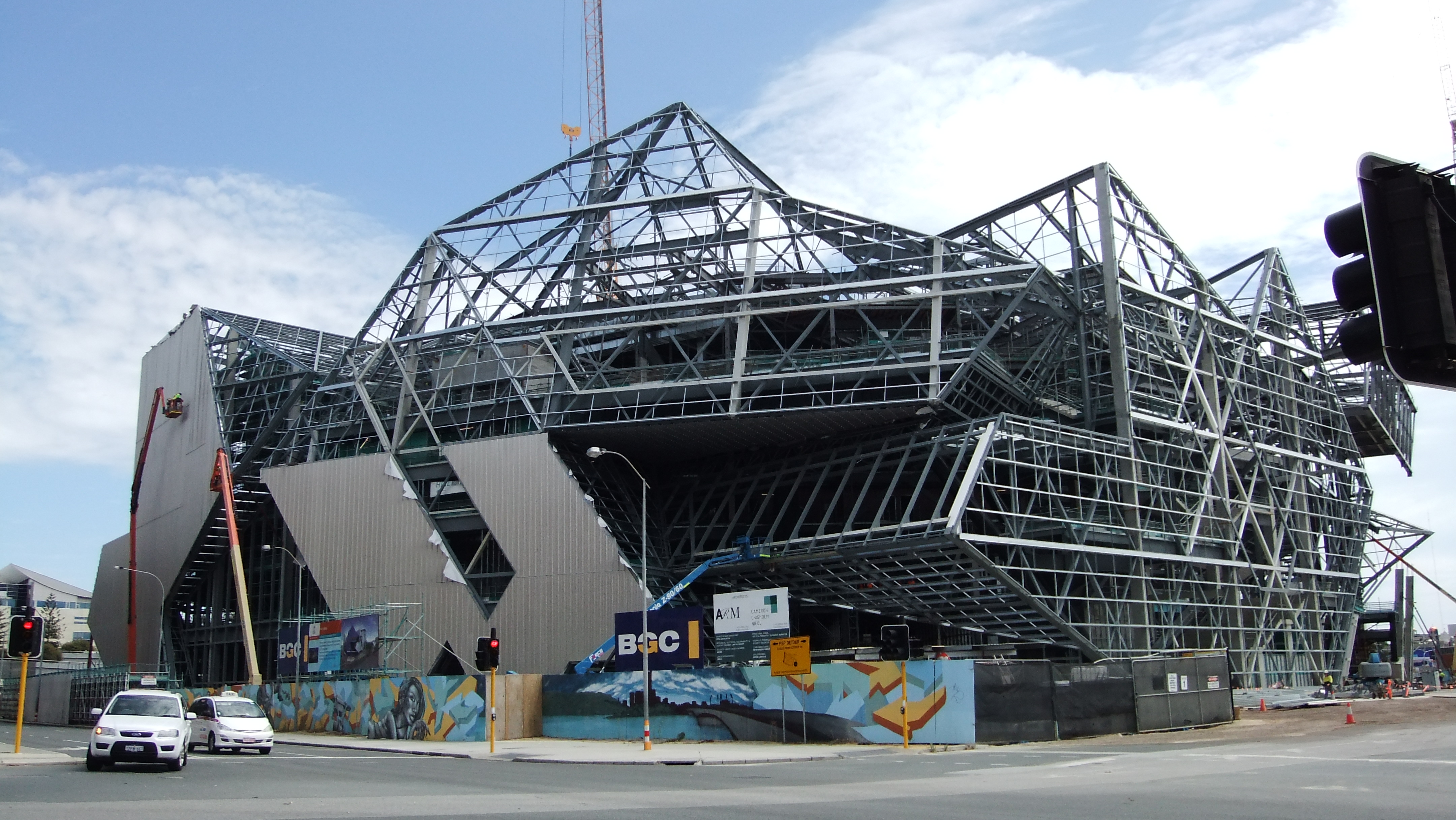 Perth Arena under construction from south-east corner (cnr Milligan and Wellington Streets)